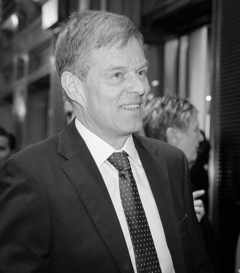 Arne Hyttnes at Governor Øystein Olsen's annual address in February 2018